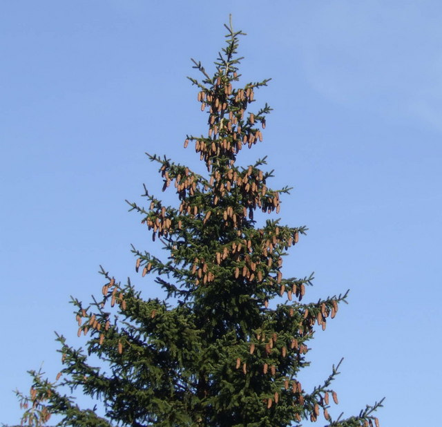 Fir tree This is a fir tree, not a pine tree. It looks like a Christmas tree with brown candles (hanging upside down)